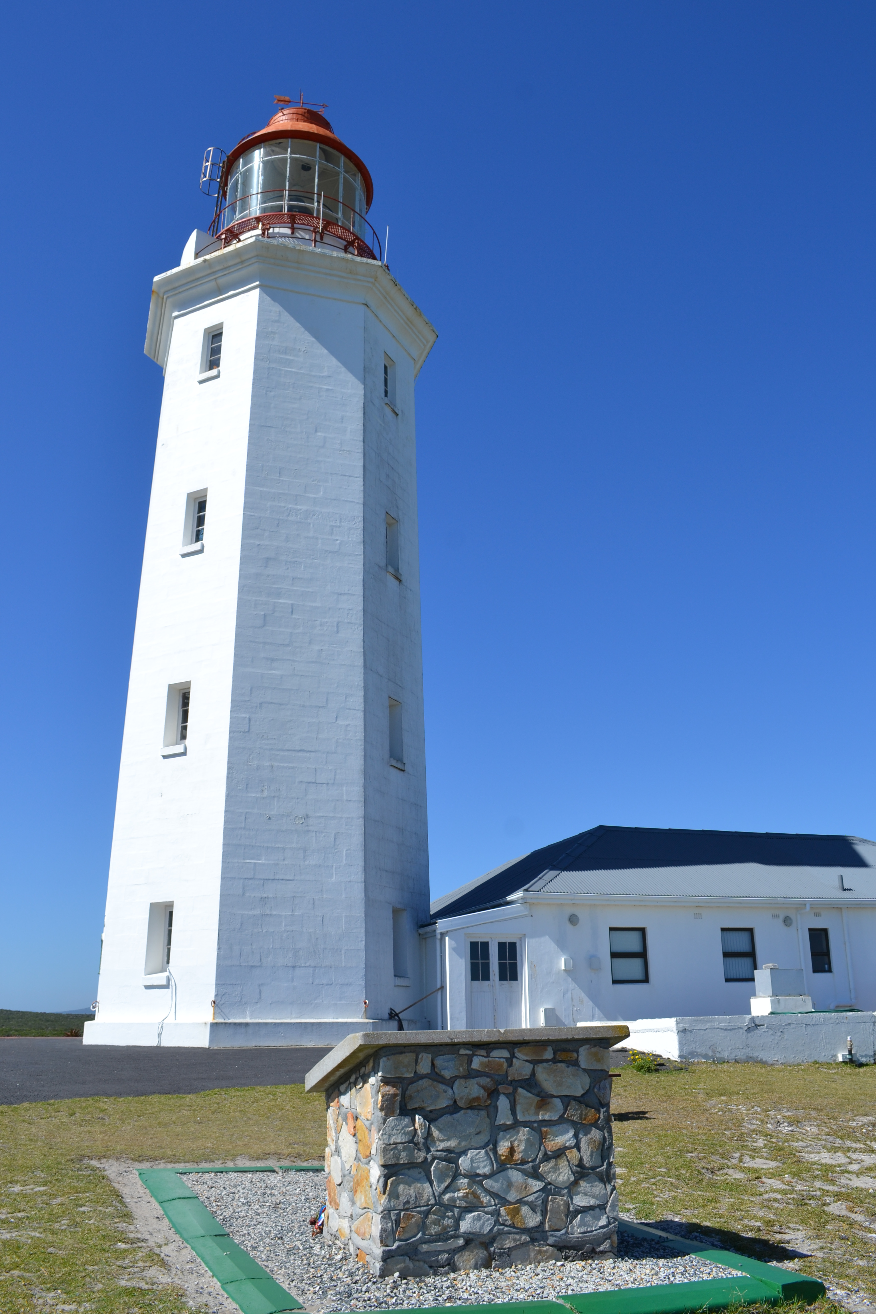 Danger Point, Western Cape.